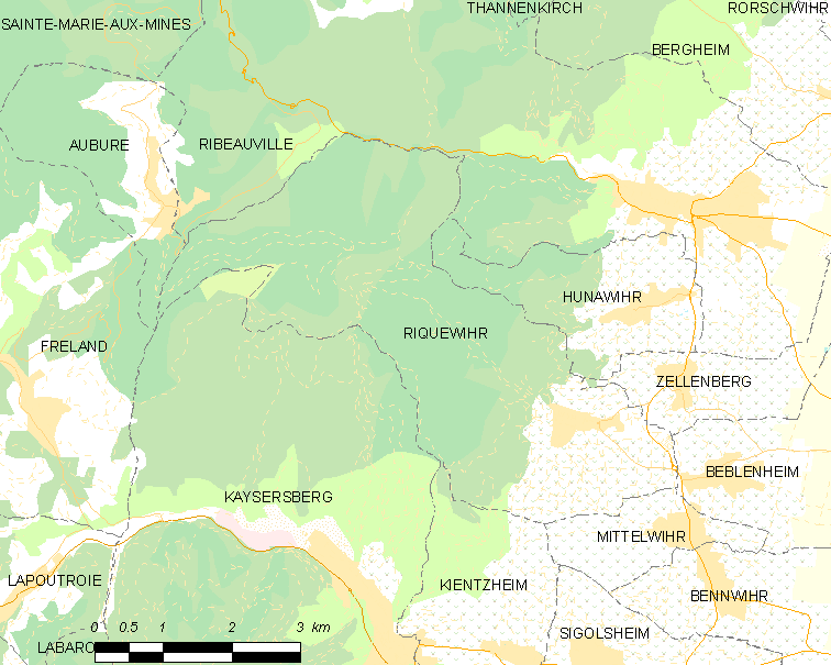 Map of French municipality